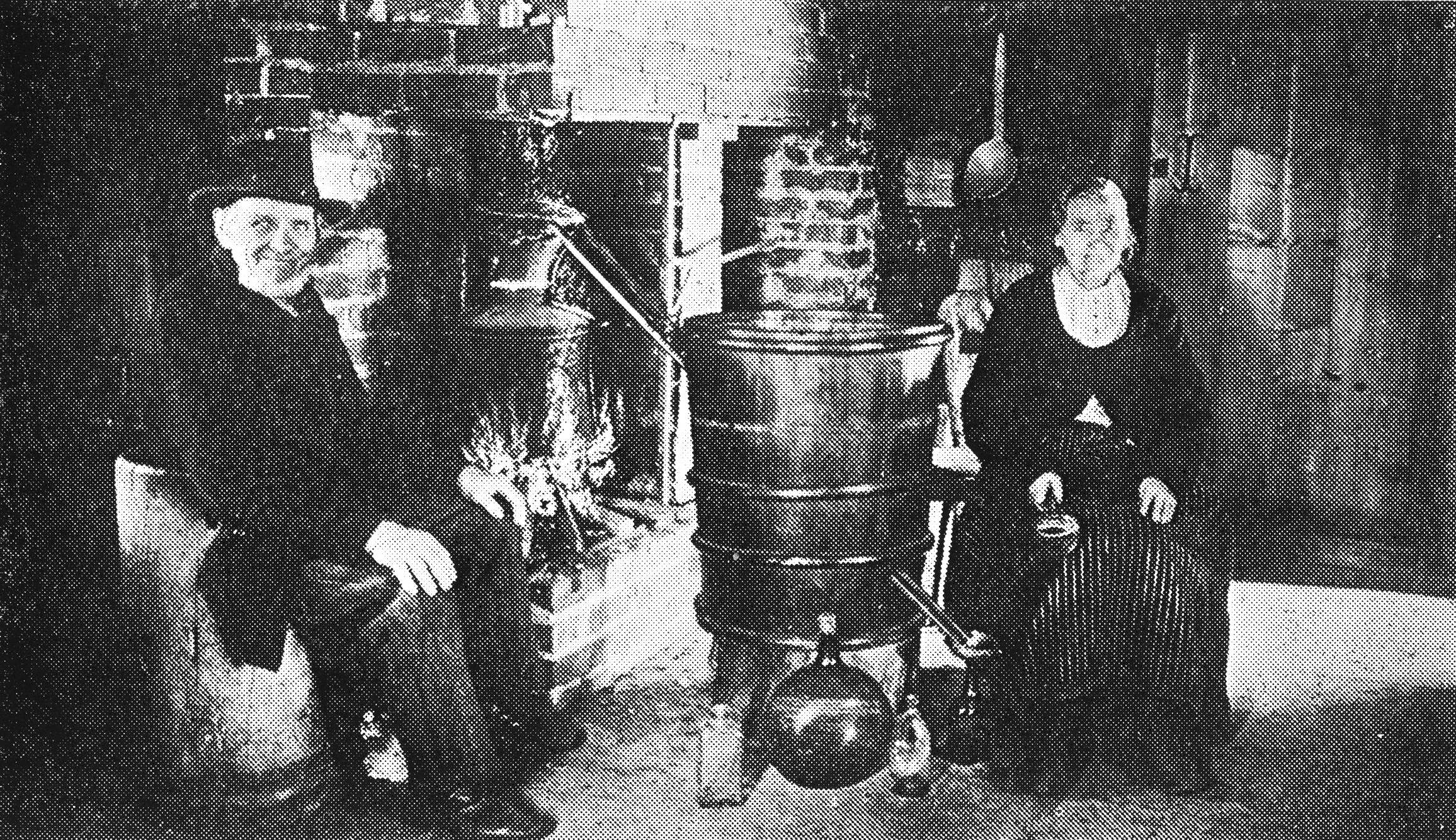 Christmas aquavit used to be just as important as the Christmas food in Sweden in times of old, and spirit distillery was seen as a normal Christmas work. Distillery for domestic use was forbidden for the last time in 1855. The picture is a reconstruction.